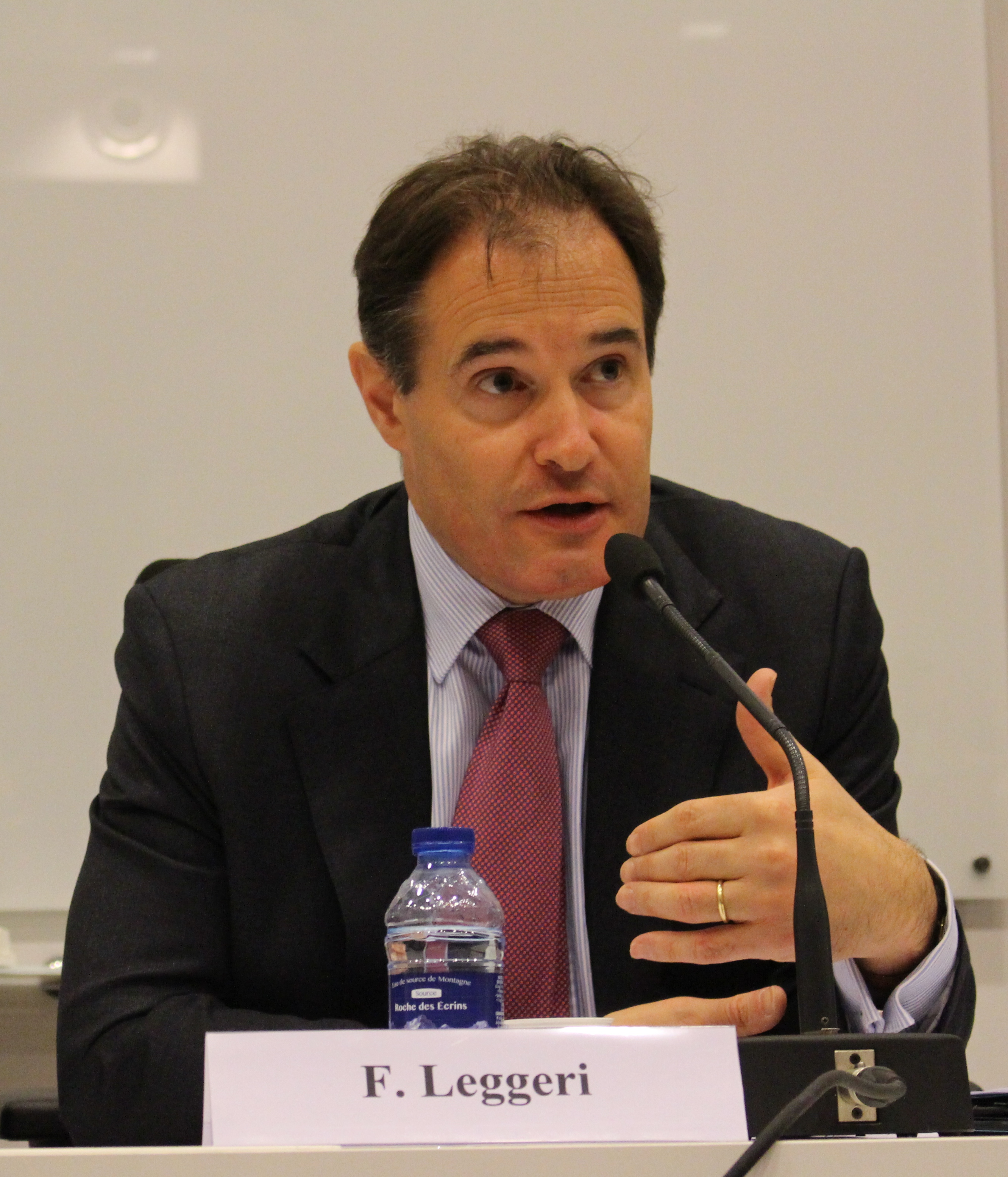 Fabrice Leggeri, Executive Director of the European Agency Frontex, at the 2015 Eurotémis conferences at Sciences Po Bordeaux.